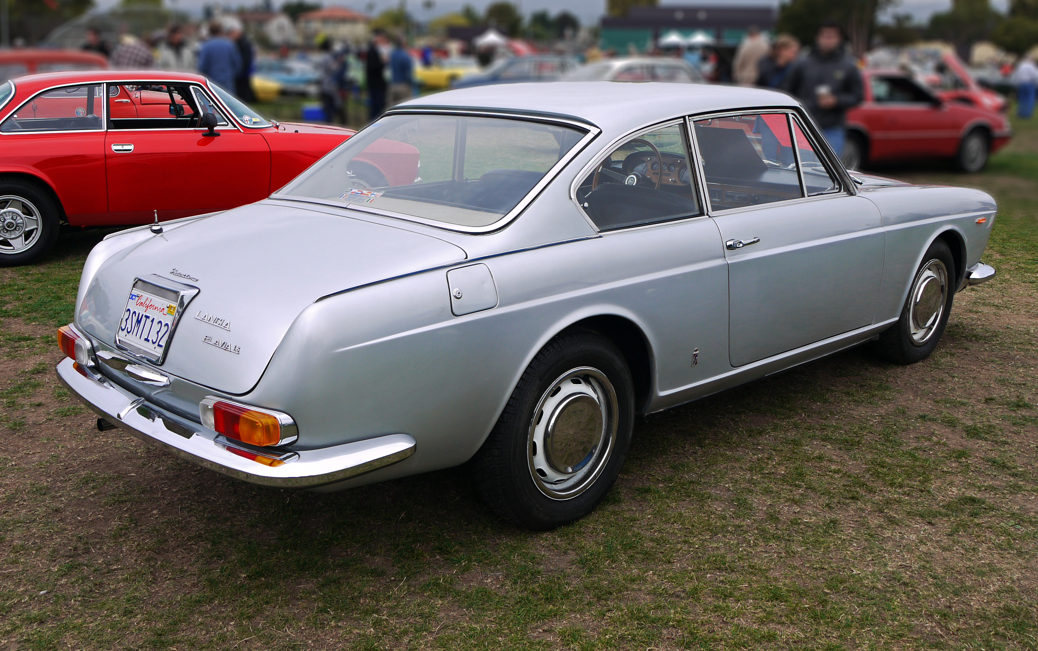 Lancia Flavia 1.8 at 2009 Alameda All Italian Car & Motorcycle Show